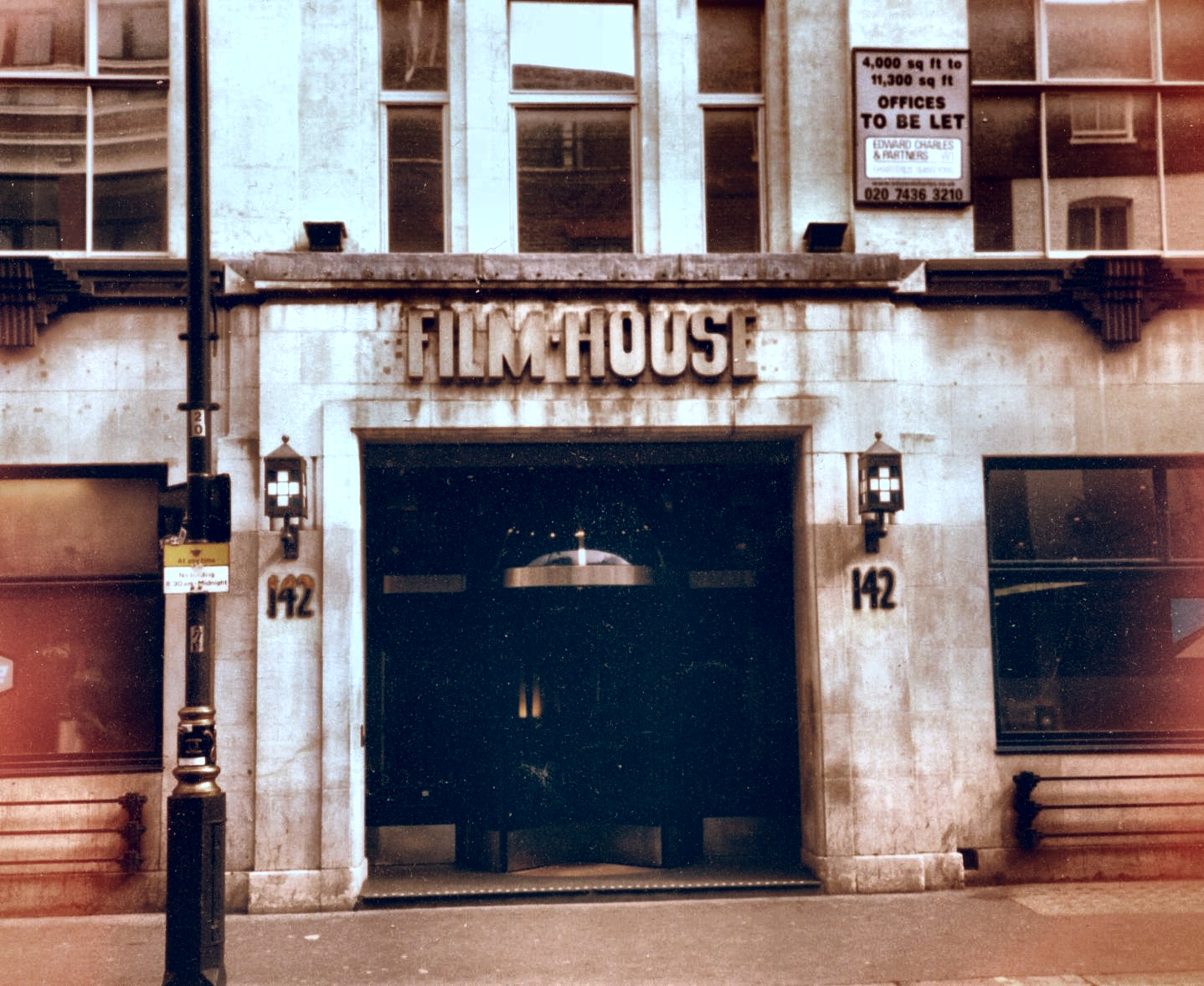 Film House, 142 Wardour Street, London. Headquarters of HMV Group plc and former offices of Associated-British Pathé, the newsreel department of Associated British Picture Corporation. Photograph by User:Redvers originally from wikipedia, now transferred to Commons. Note that the photograph has been altered by the author since the original upload and that the licence status has changed from Own Work GDFL to the more explicitly free Own Work Public Domain All Rights Released.